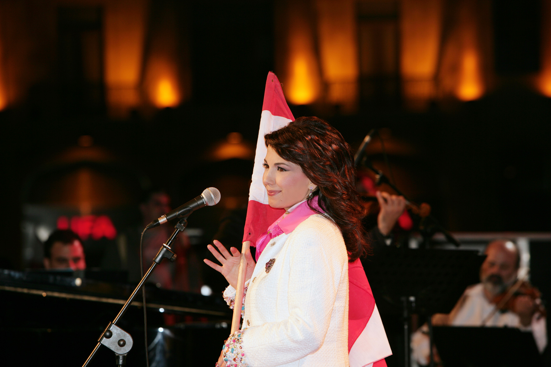 Majida El Roumi during her concert held in the Martyrs' Square, Beirut.